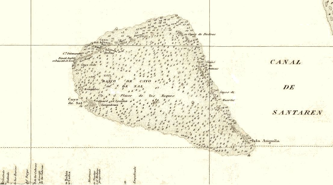 1854 Spanish map of the Placer de los Roques (Cay Sal Bank)